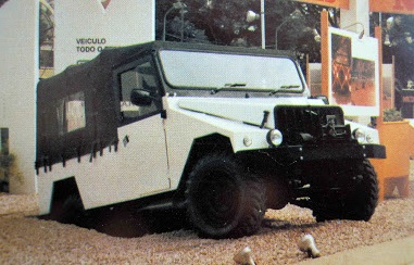 UMM Cournil 4x4 1979